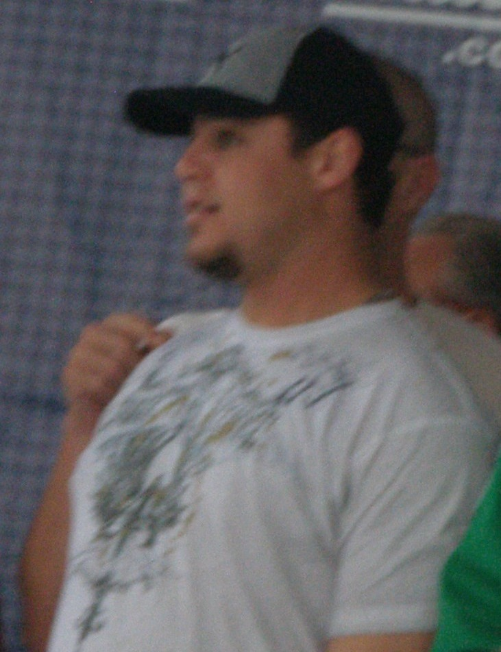 Left to right: Geoff Geary, Pete LaForest and Rod Barajas of the Philadelphia Phillies in 2007